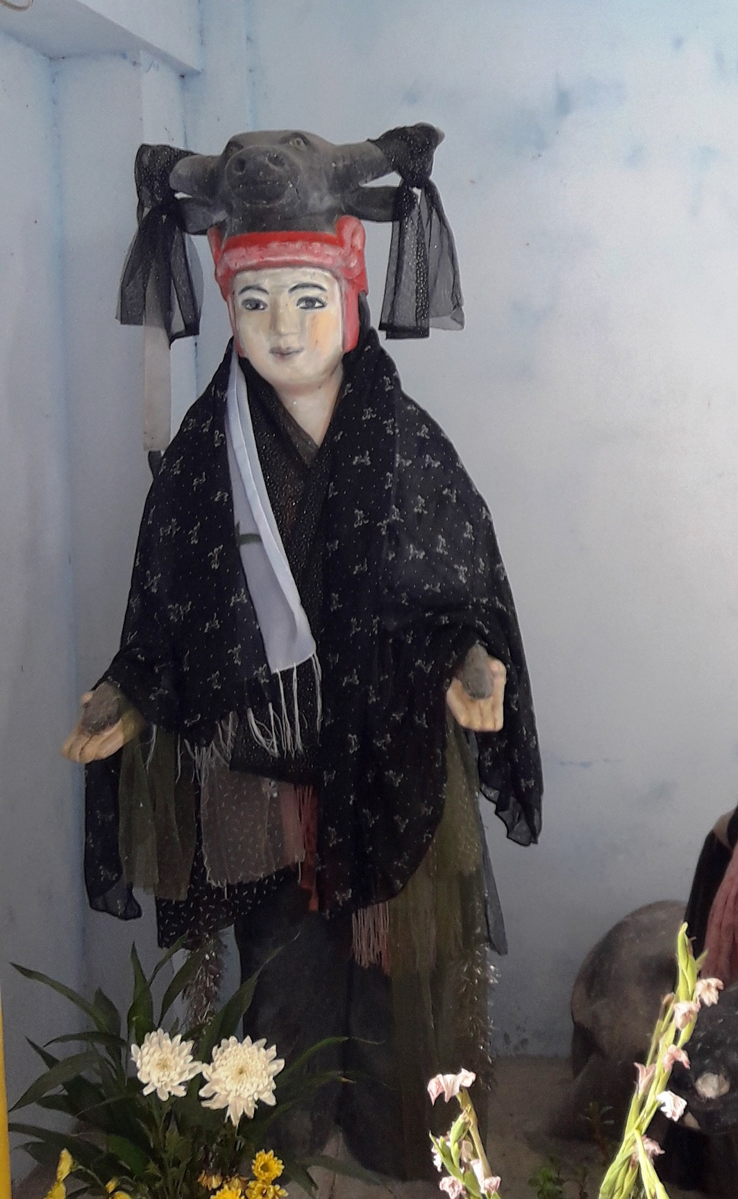 Bago Medaw also known as the Buffalo Mother or Lady Buffalo is a Burmese nat commonly venerated in the vicinity of Bago, although worship is seen throughout Lower Burma. Bago Medaw is depicted as a maiden wearing a water buffalo skull, representing a female buffalo named Nankaraing, that nursed the traditional founders of Hanthawaddy (now Bago), two brothers named Thamala and Wimala. She was subsequently killed by them. She is believed to protect the family and home, and grants wishes to those she favors.